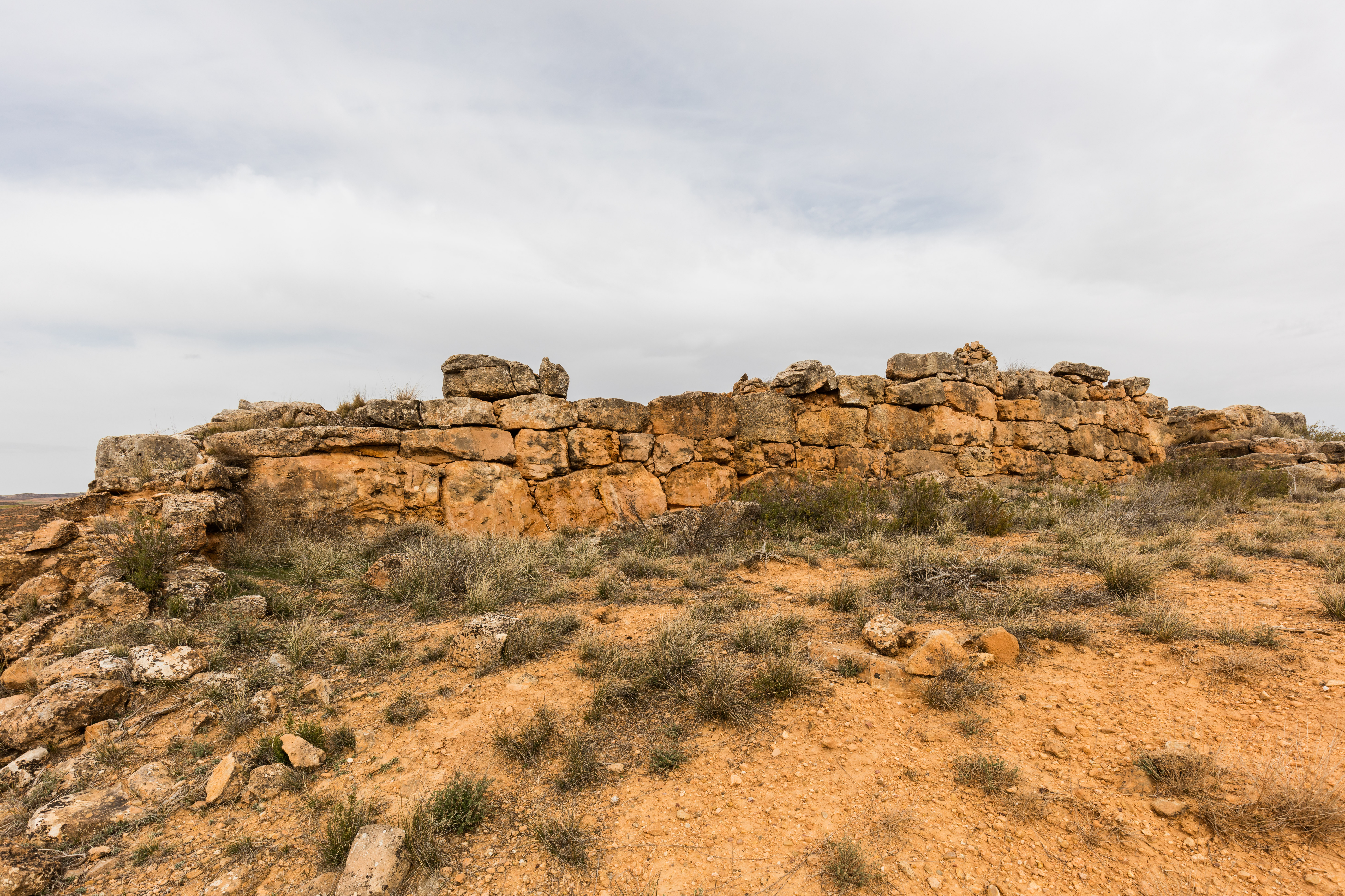 Cyclopean settlement, Santa María de Huerta, Soria, Spain